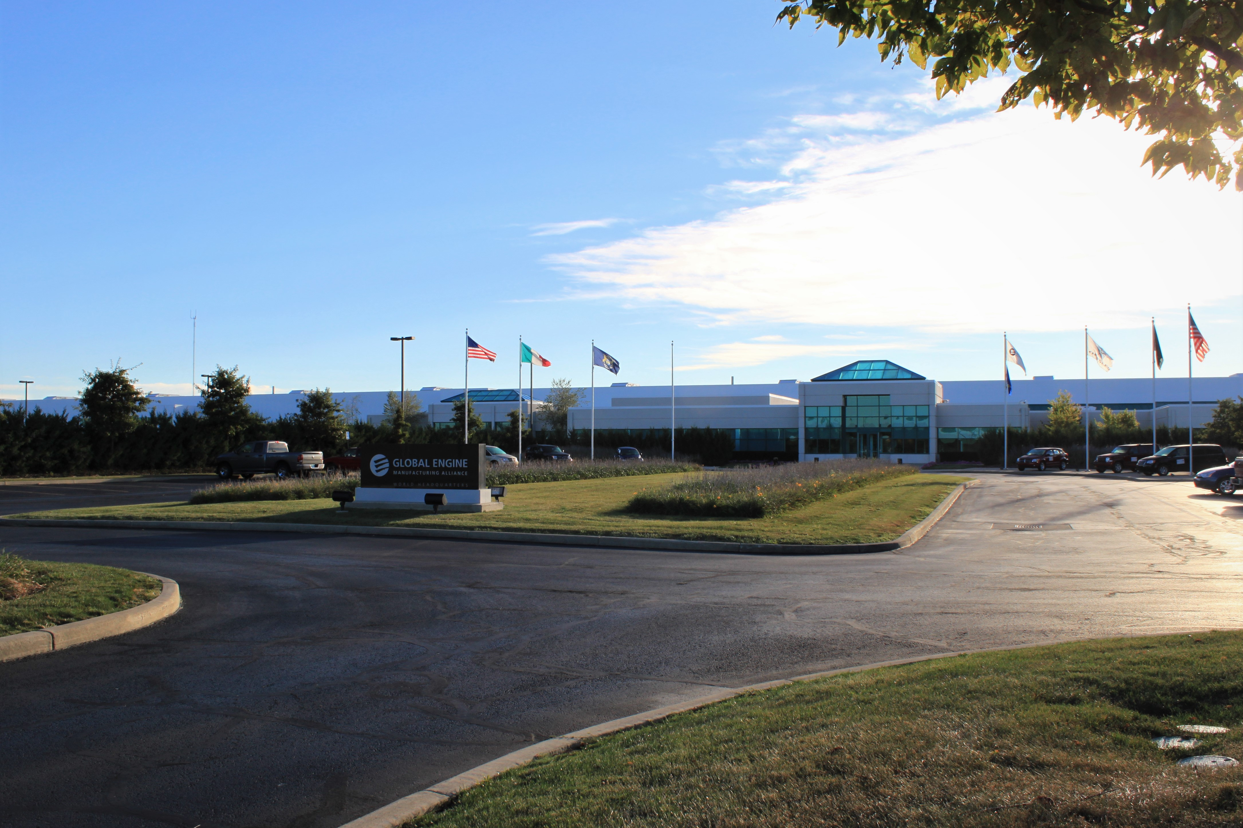 Global Engine Manufacturing Alliance World Headquarters Building, 5800 Ann Arbor Road, Dundee, Michigan